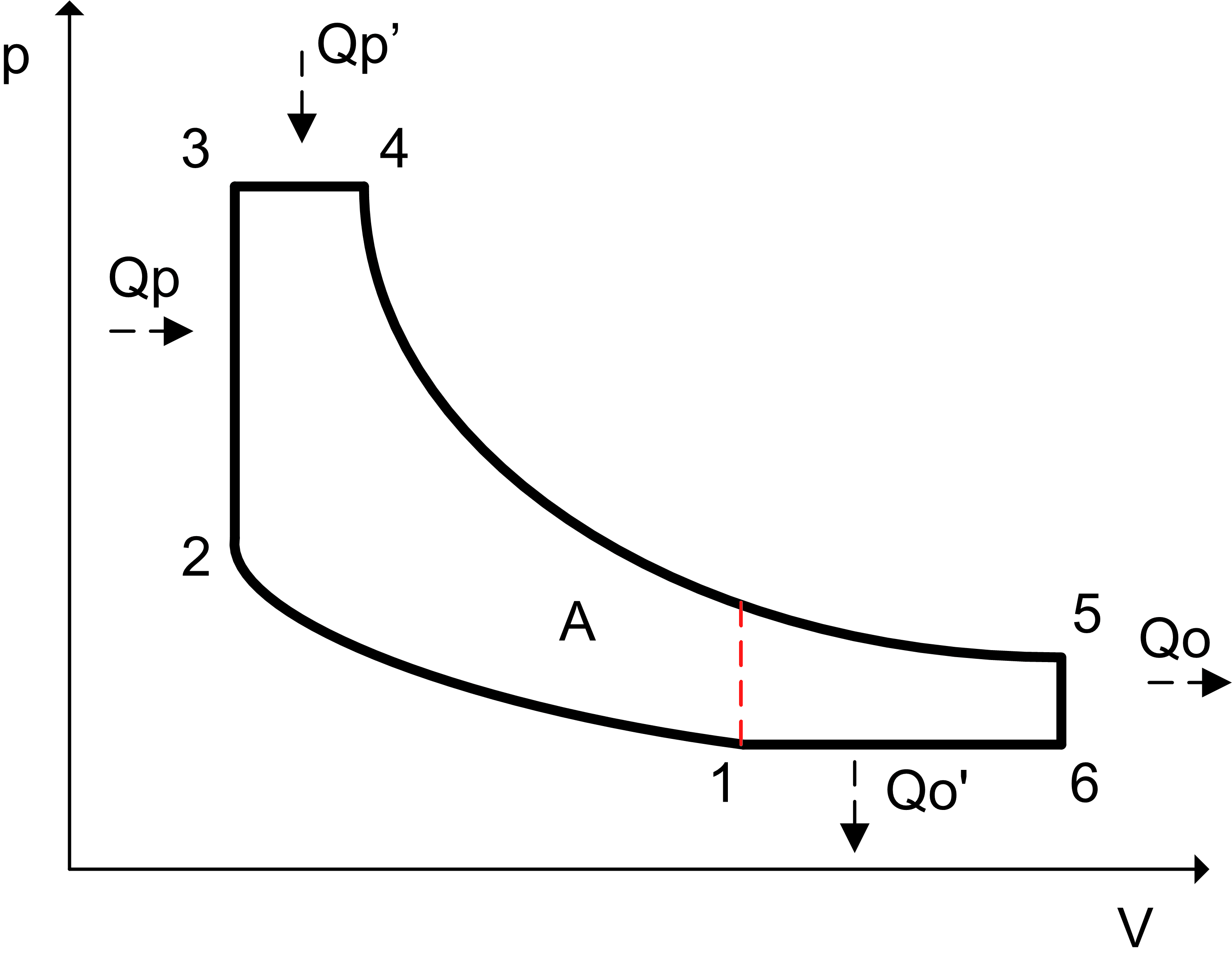 Atkinson or Miler cycle in p-V diagram.